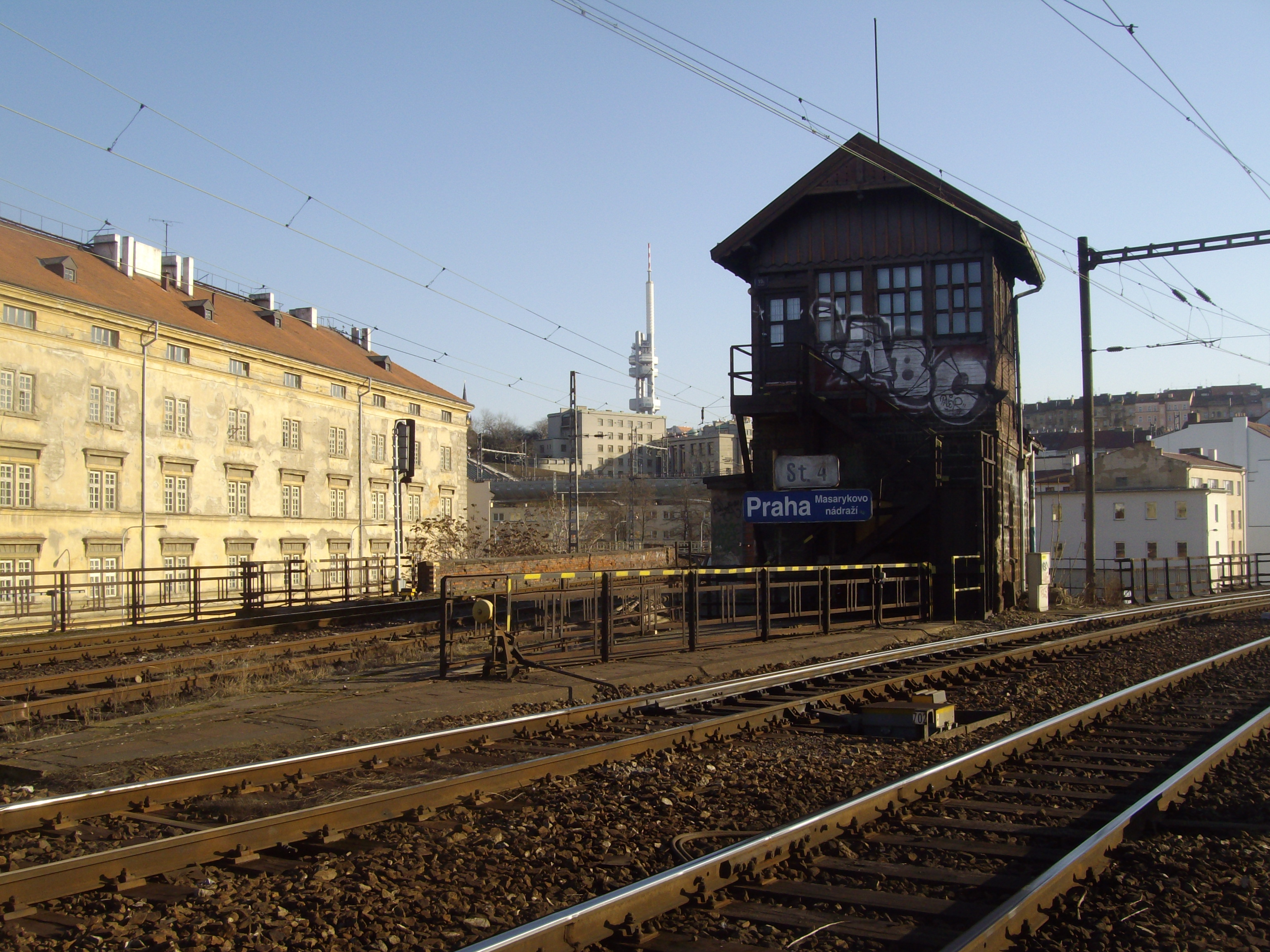 Railway station Praha-Masarykovo nádraží - signal box no. 4